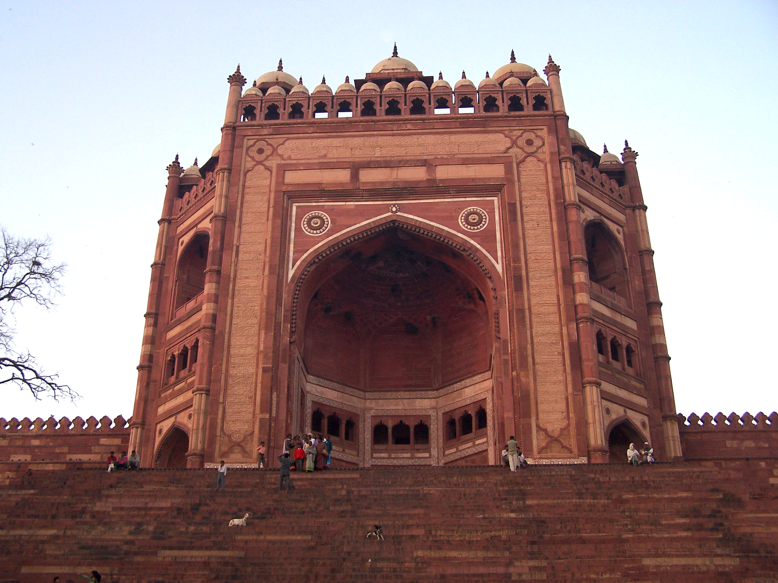 Bulwand Darwaaza, or the entrance to Fathepur Sikri, near Agra, India, seen during sunset.